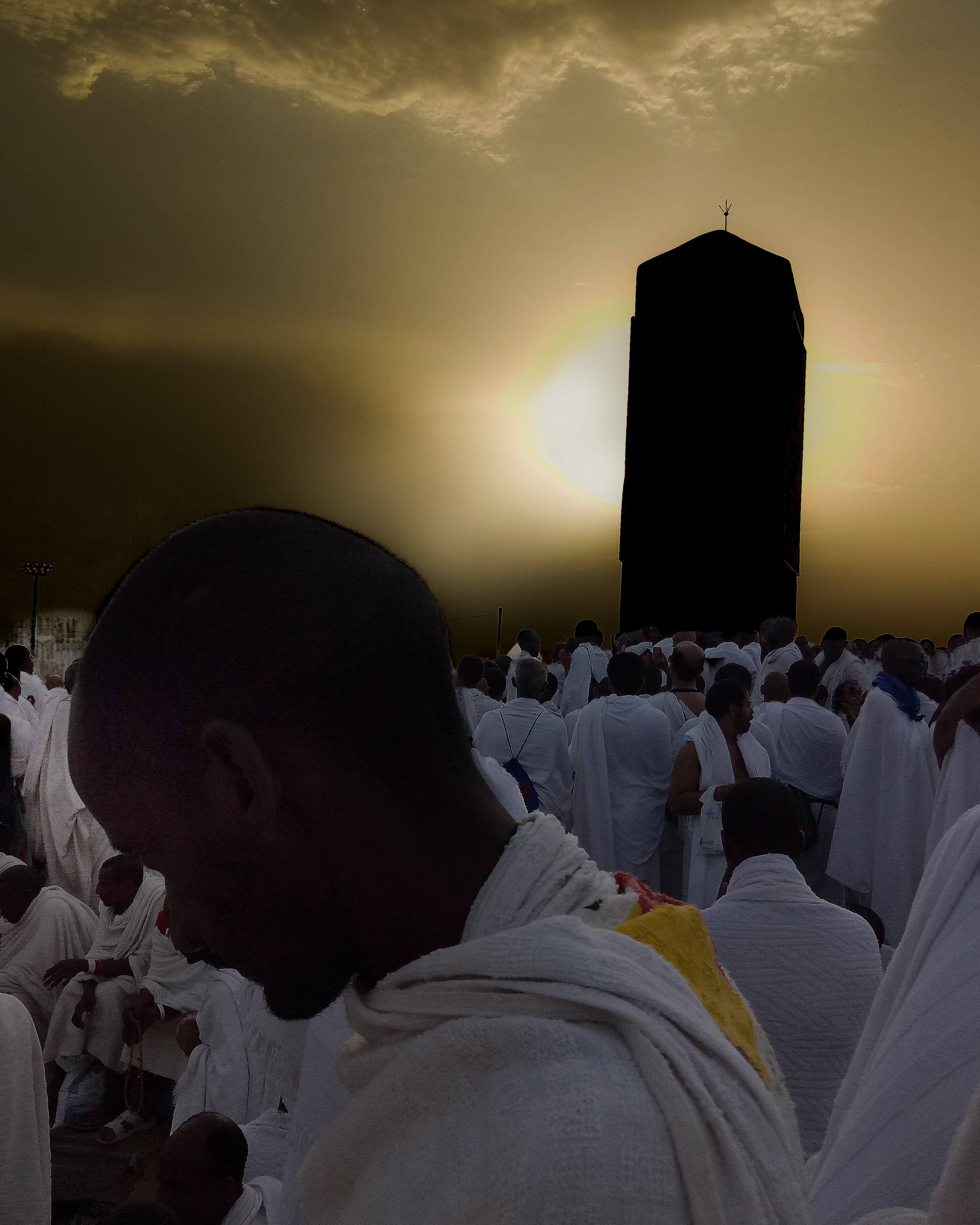 According to Islamic tradition, the hill is the place where the Prophet Muhammad SAW stood and delivered the Farewell Sermon